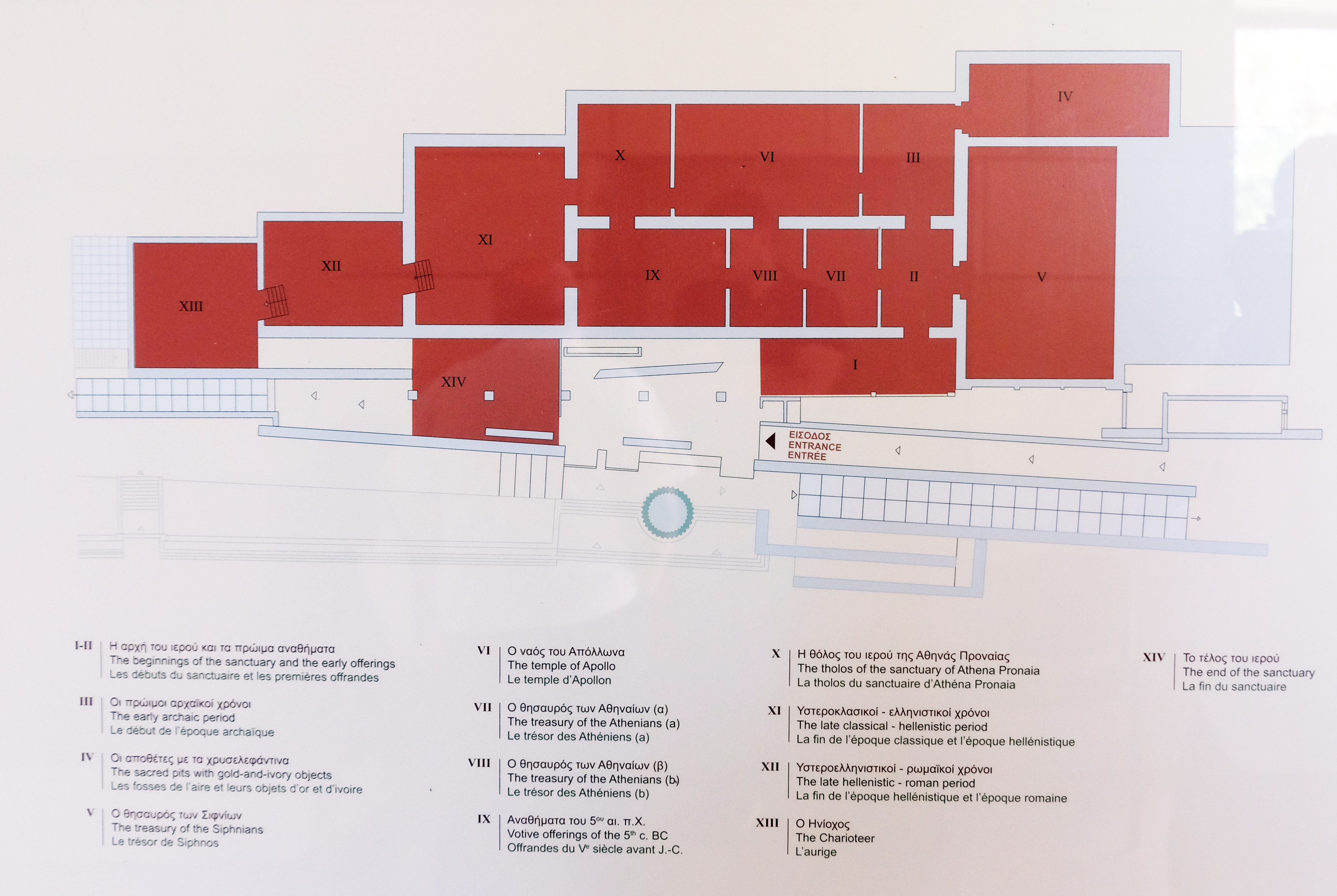 Plan of Delphi Museum